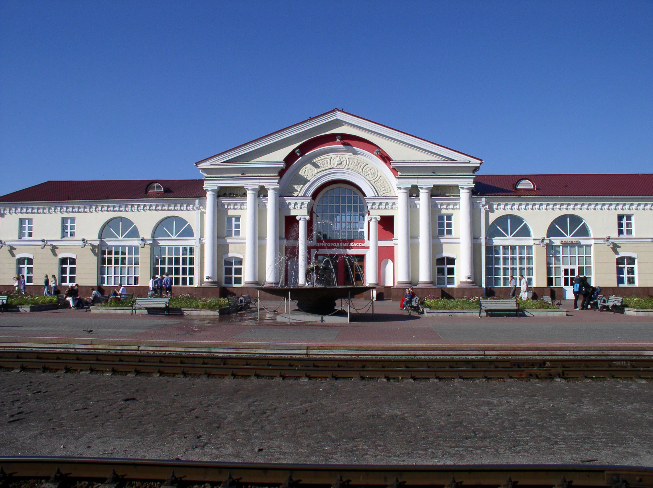 Railway station. Polatsk, Belarus.